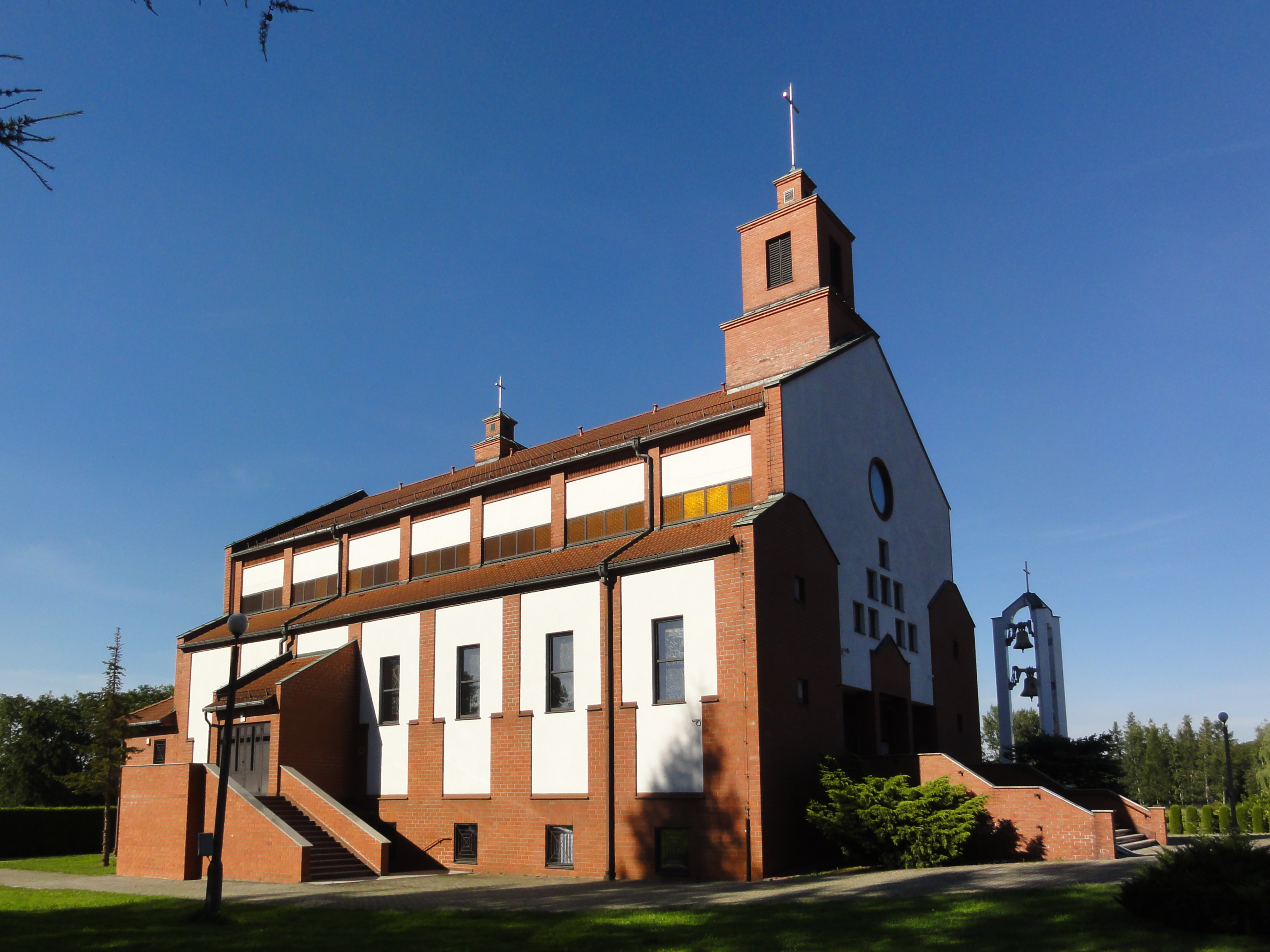 Church in Sułkowice Łęg